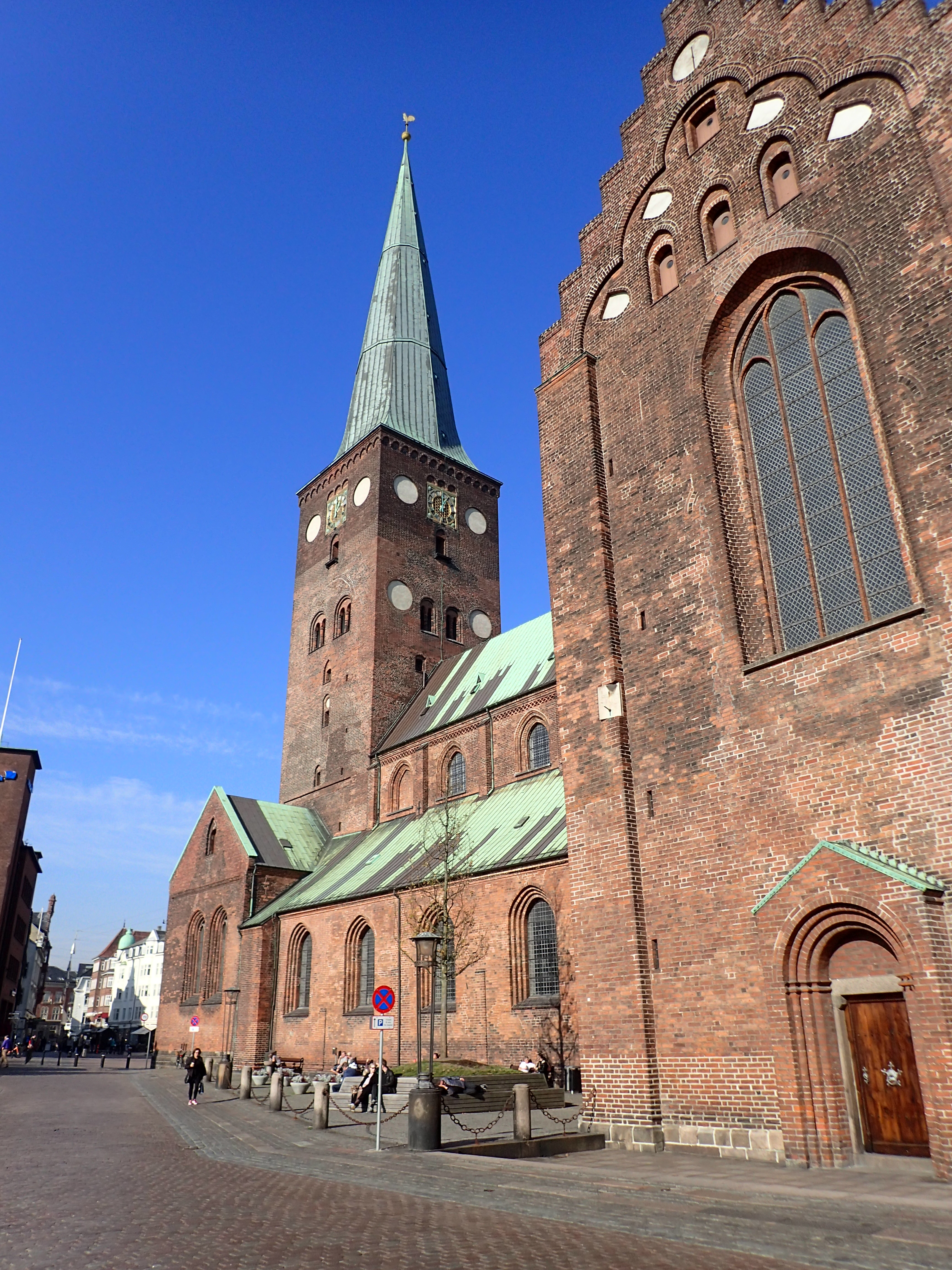 Aarhus Cathedral viewed from Bispetorvet.